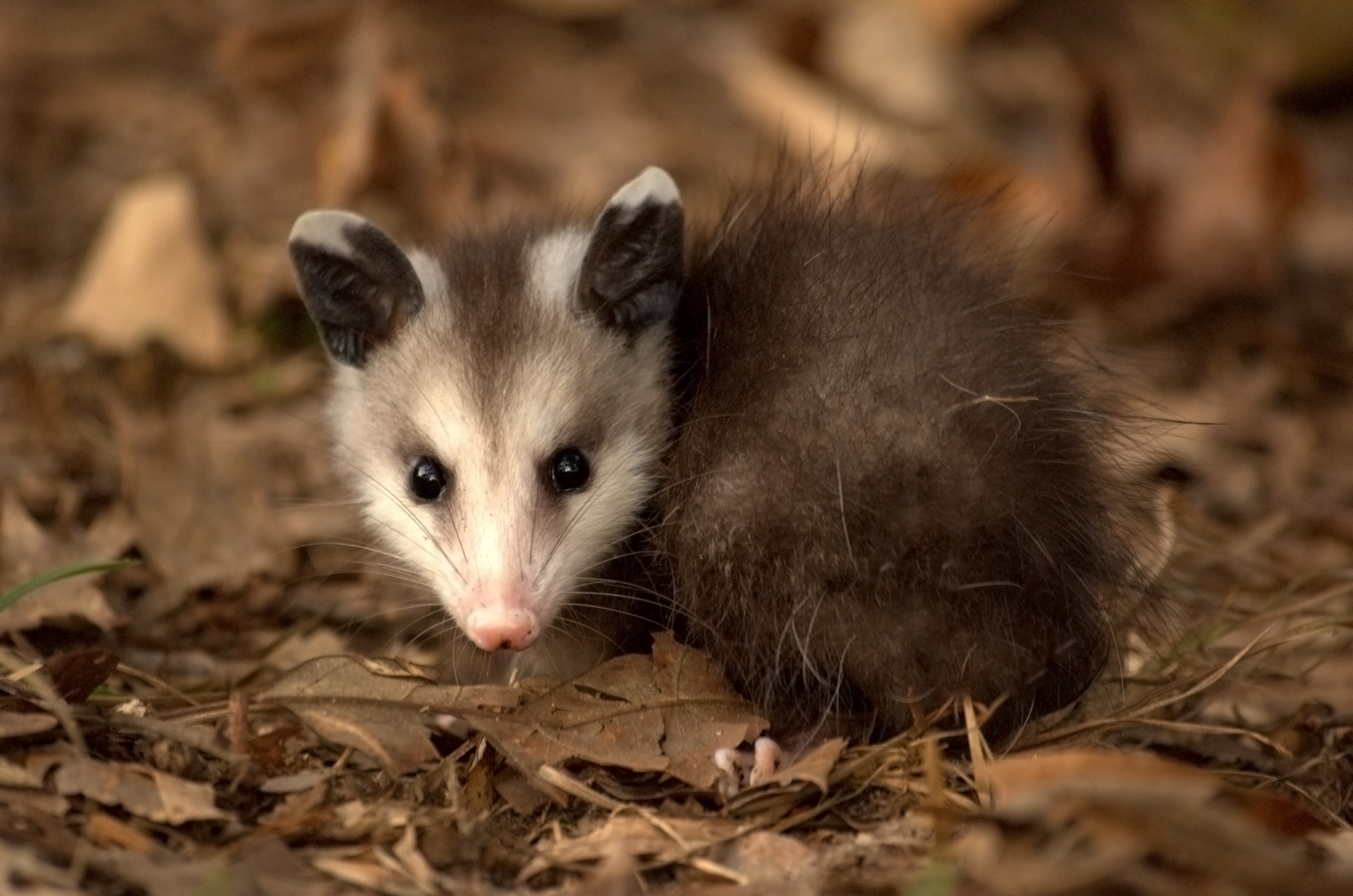 Young Virginia Opossum crouching in a patch of oak leaves.